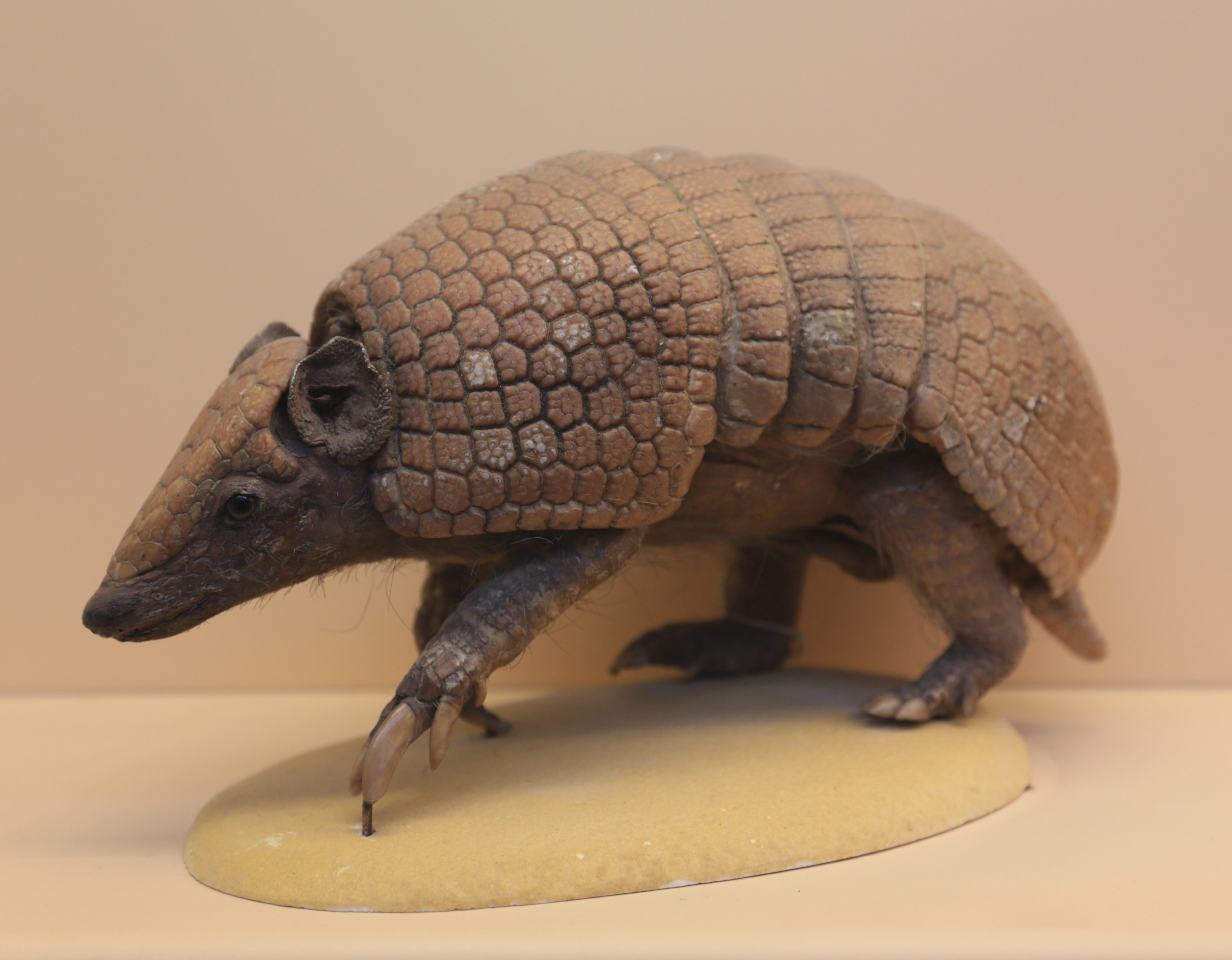 Brazilian three-banded armadillo (Tolypeutes tricinctus), Natural History Museum, London, Mammals Gallery